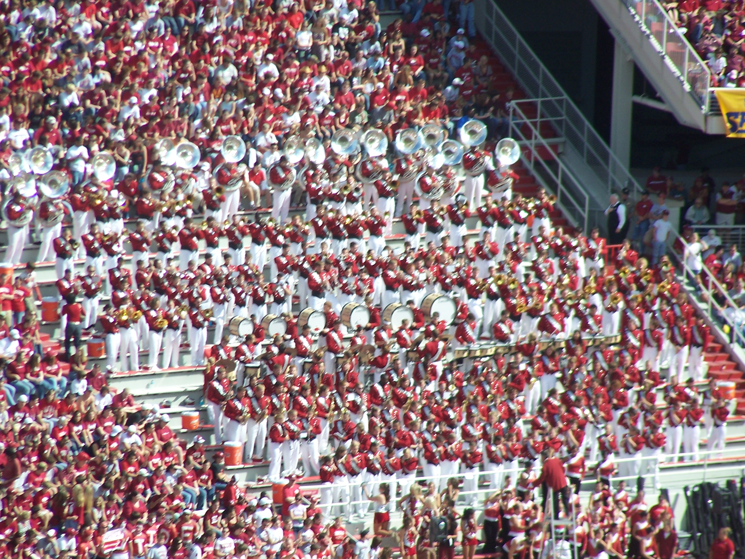 Band in Razorback Stadium for a football game against Alabama